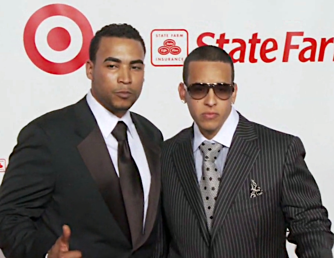 Daddy Yankee & Don Omar at 2009 Billboard Latin Music Awards Red Carpet | Screenshoot starting at 6:17 sec.